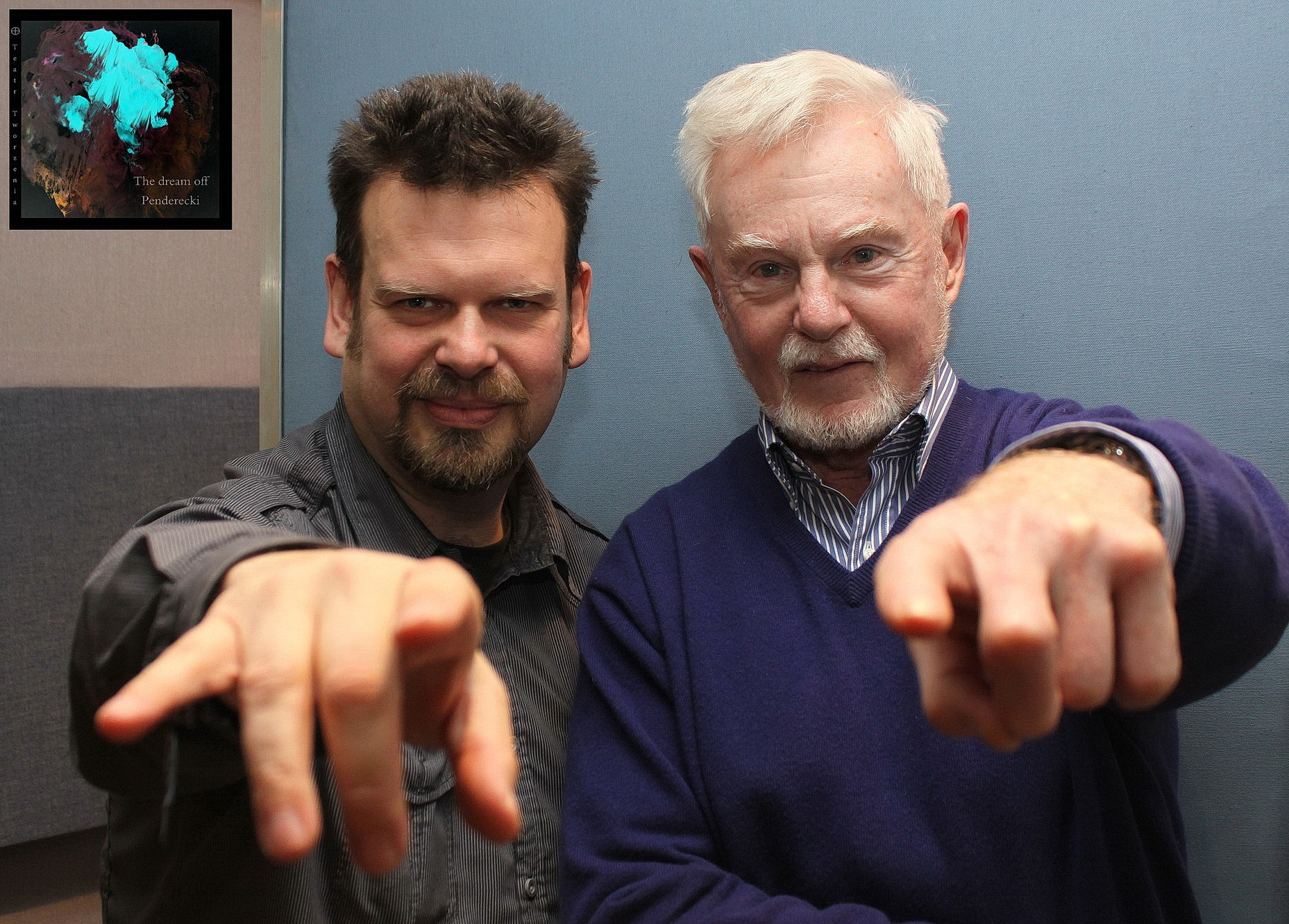 JPijarowski & DJacobi during recording session in London.